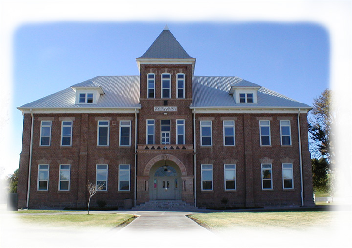 Picture of the Academia Juarez (Juarez Stake Academy) in Colonia Juarez, Chihuahua, Mexico.